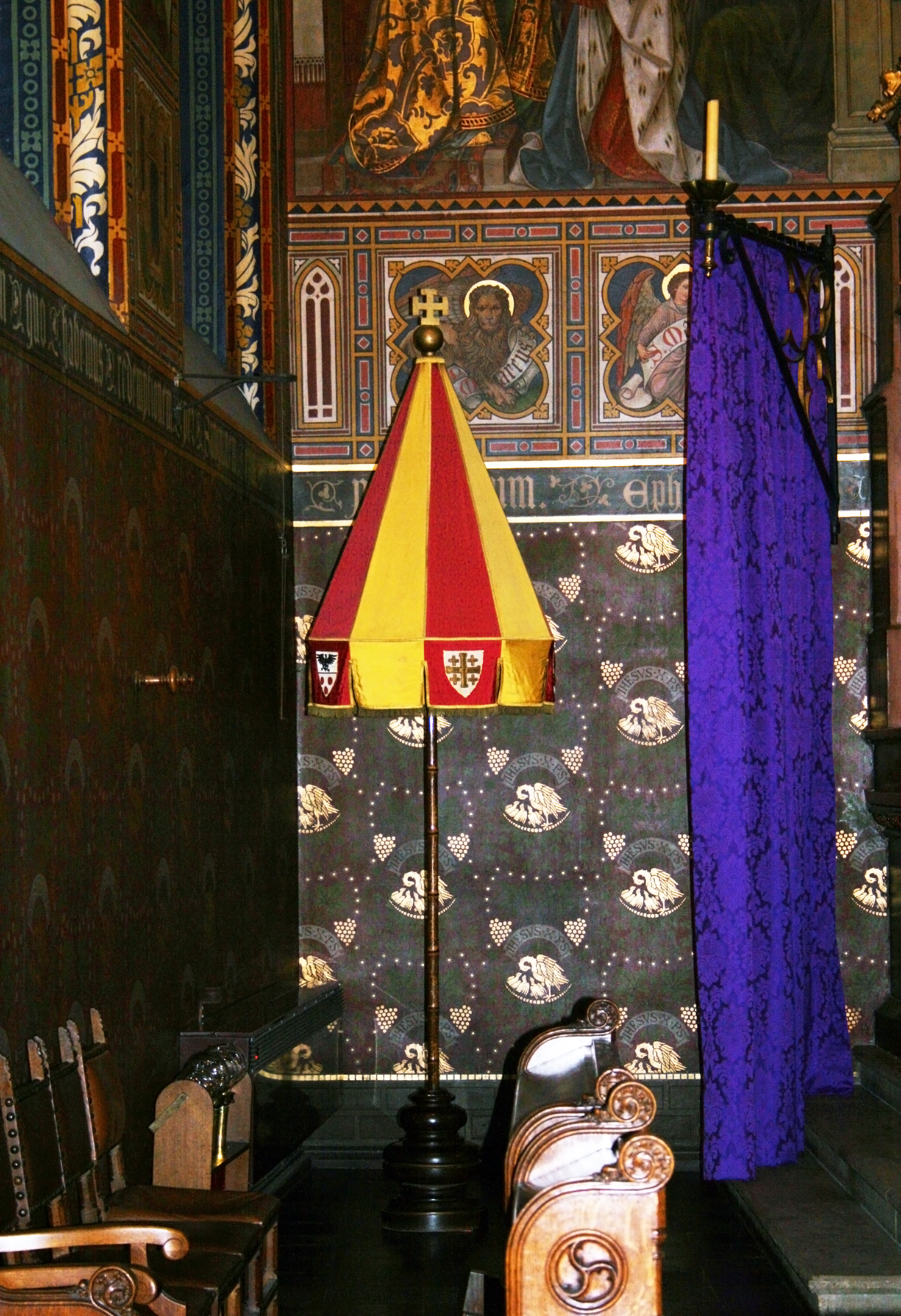 The umbraculum, attribute of a basilica